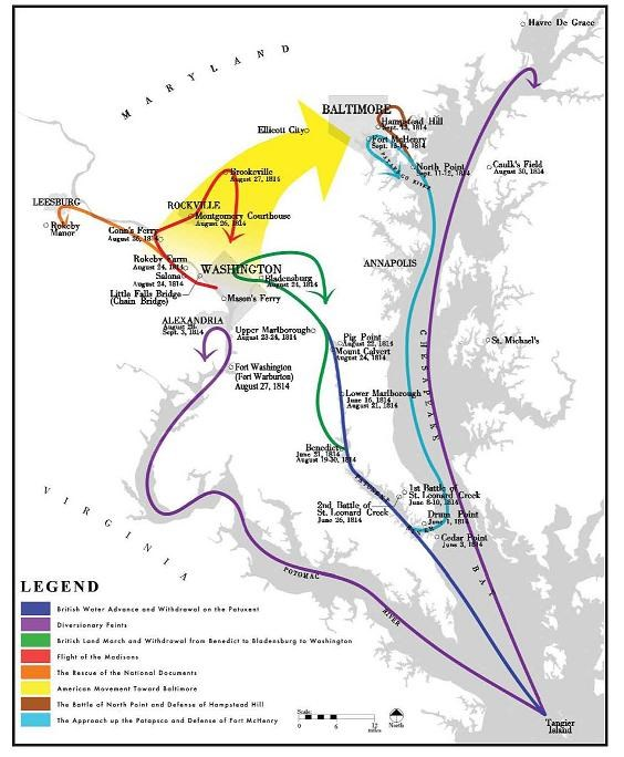 The War of 1812 in the Chesapeake.